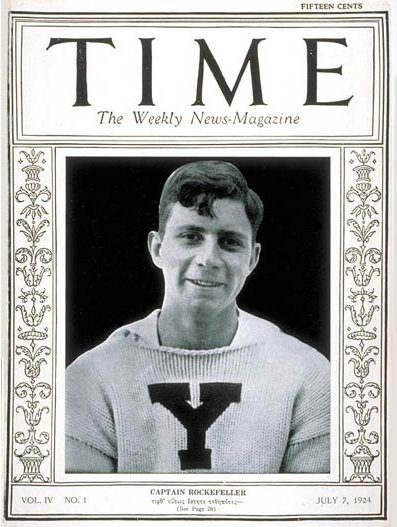 Cover of Time Magazine of July 7, 1924 showing James Stillman Rockefeller.